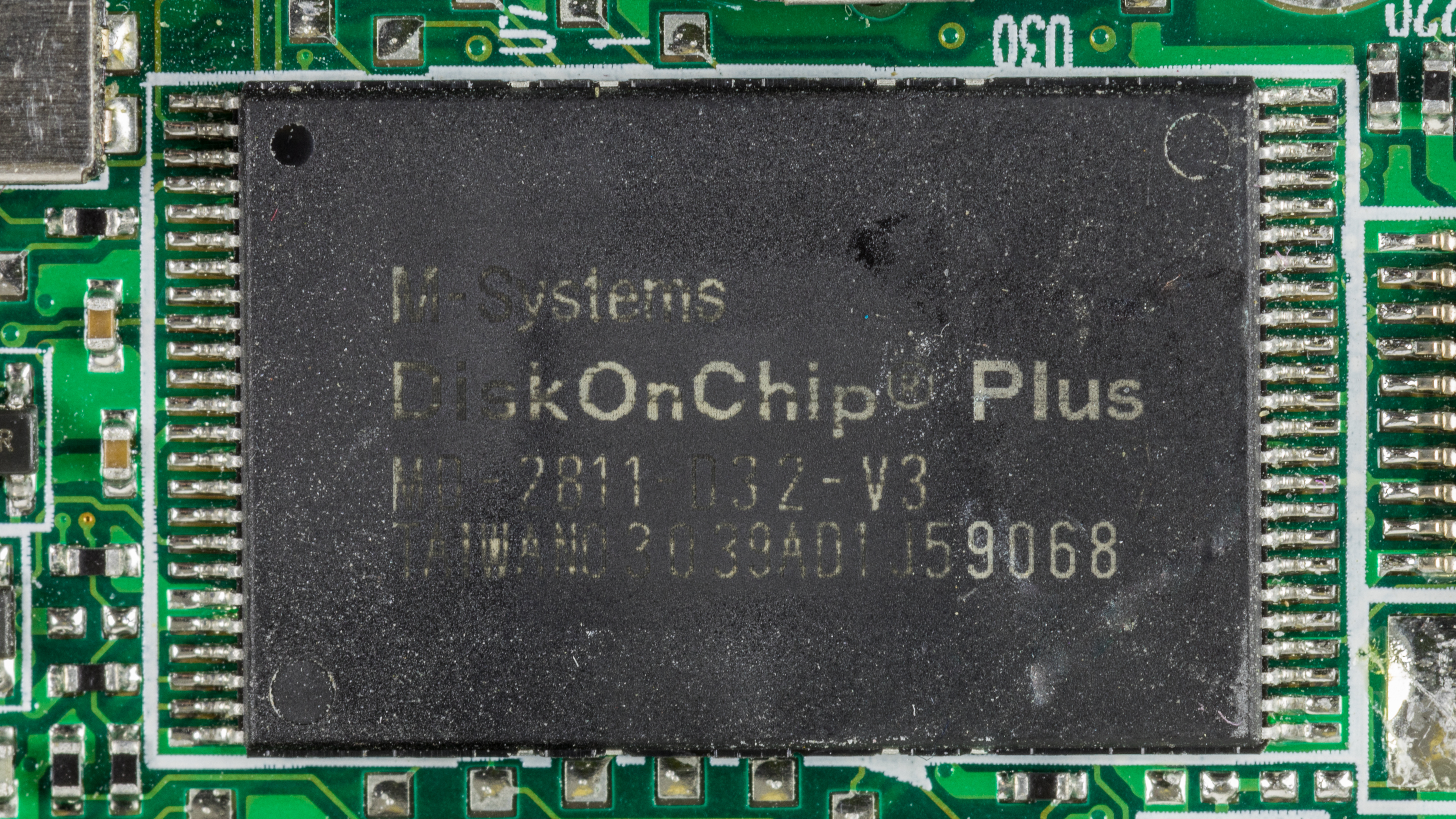 Medion Pocket PC MD 7200 (Model MDPPC 100) - board - M-Systems DiskOnChip Plus MD2811-D32-V3 - Flash Disk with Protection and Security-Enabling Features. Package: 48-pin TSOP-I